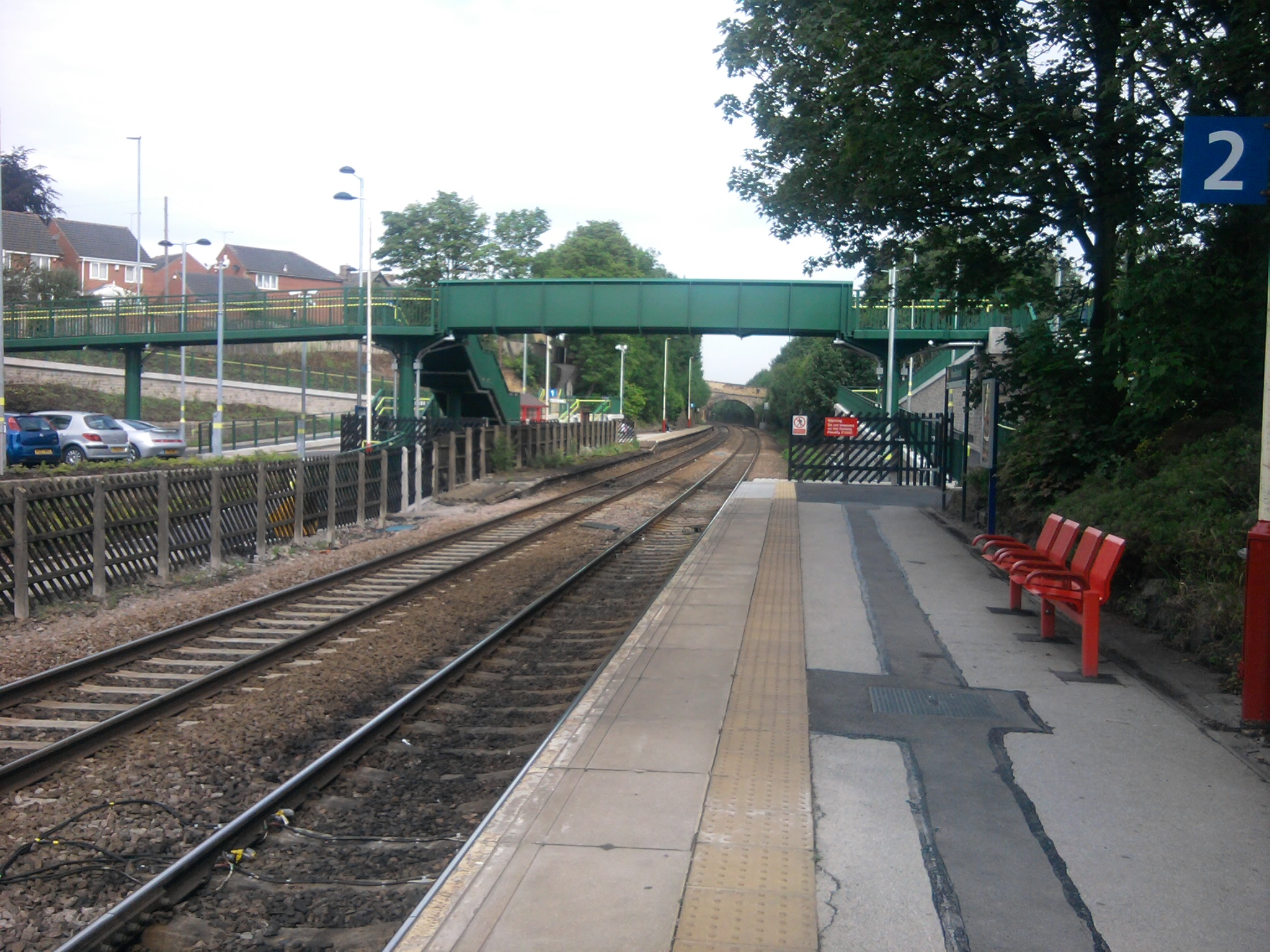 Woodlesford railway station near Leeds after the installation of footbridge in 2010.